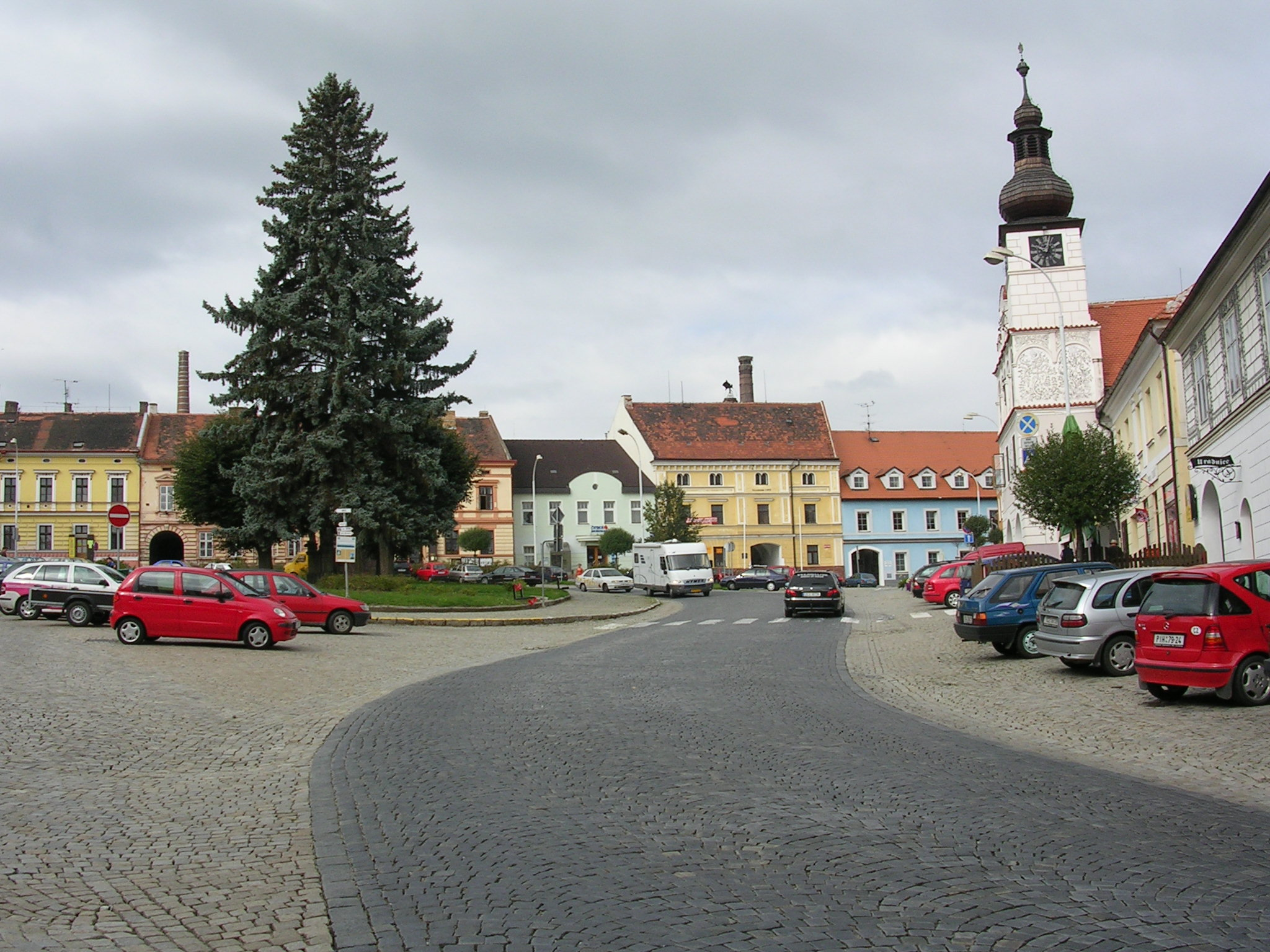 Volyně, South Bohemian Region, Czech Republic. - OpenStreetMap(Info)